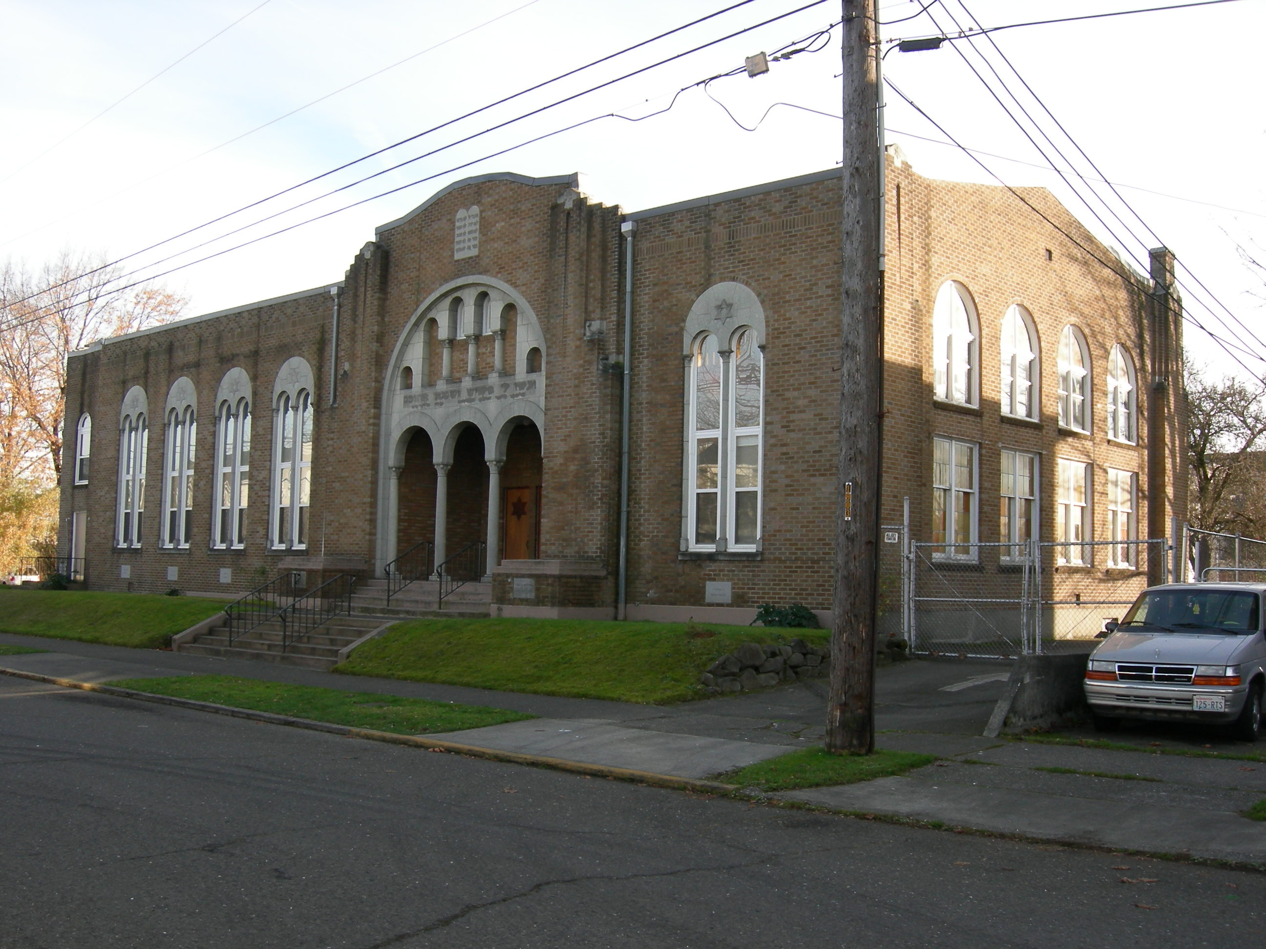 Tolliver Temple (Church of God in Christ), 1915 E Fir St, Seattle, Washington, USA. Former Sephardic Bikur Holim synagogue.